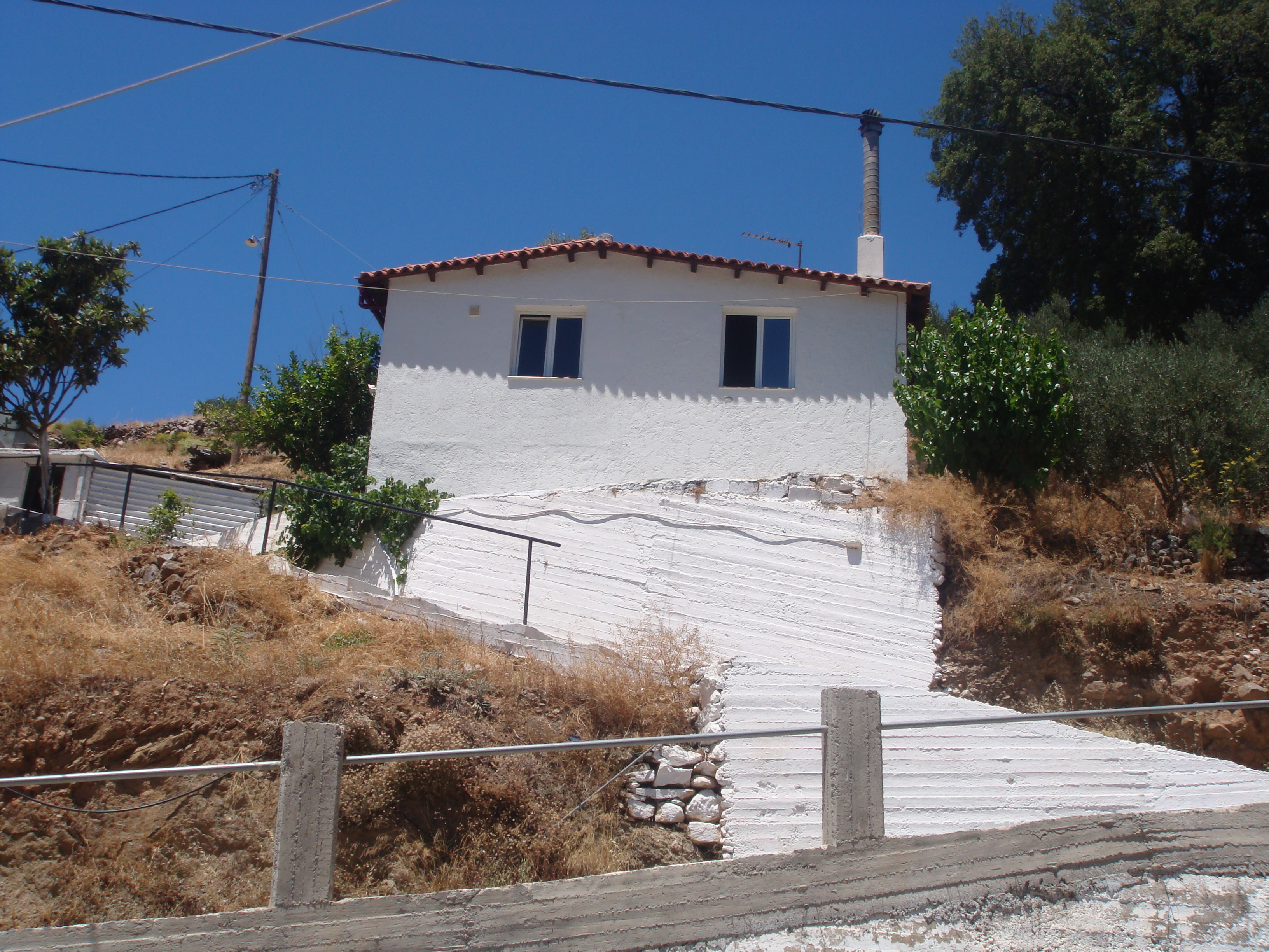 A view from the village of Kseniakos, Iraklion prefecture.